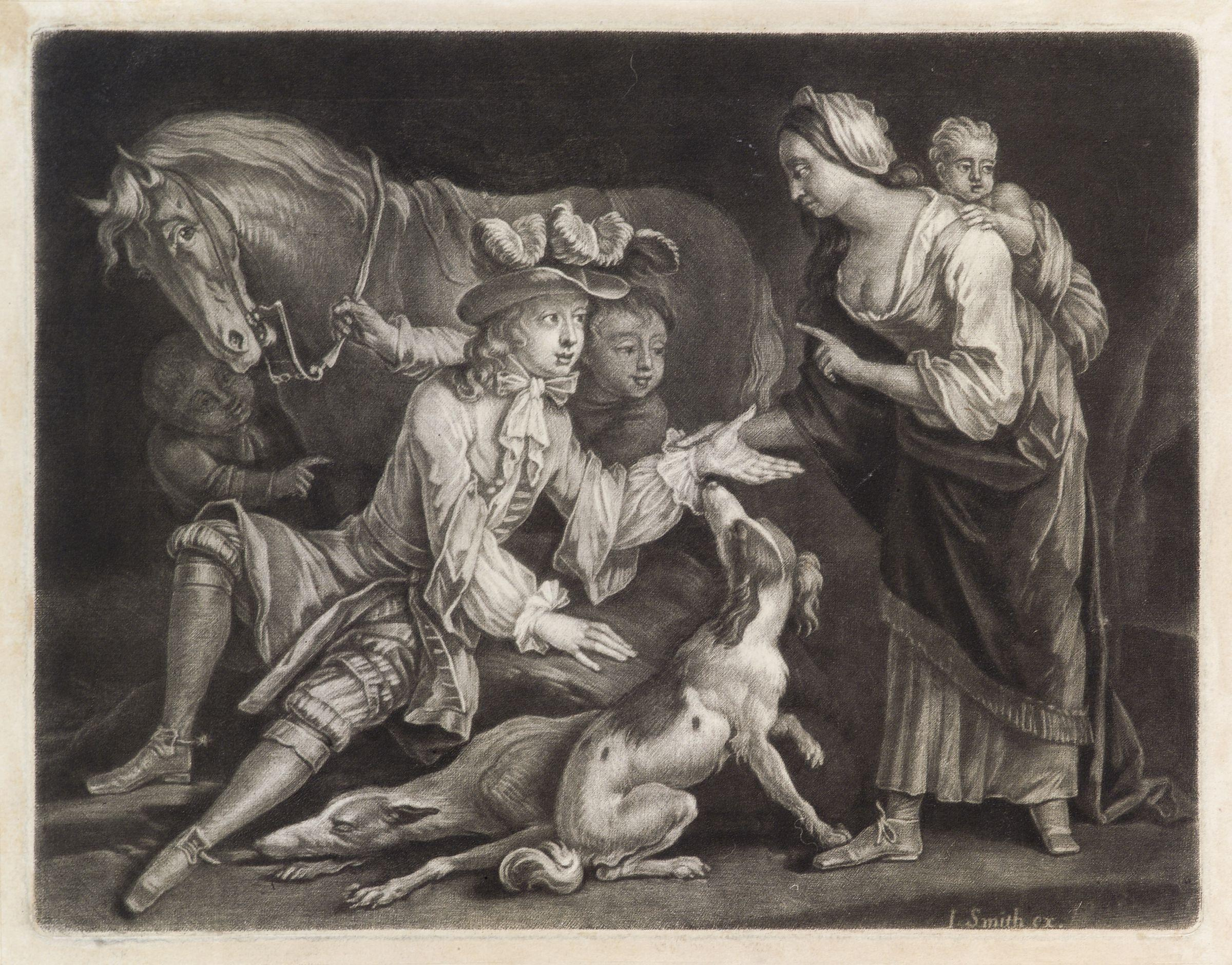 The Gypsy Fortune teller, by John Smith (died 1743). All images in this batch have been confirmed as author died before 1939 according to the official death date listed by the NPG.